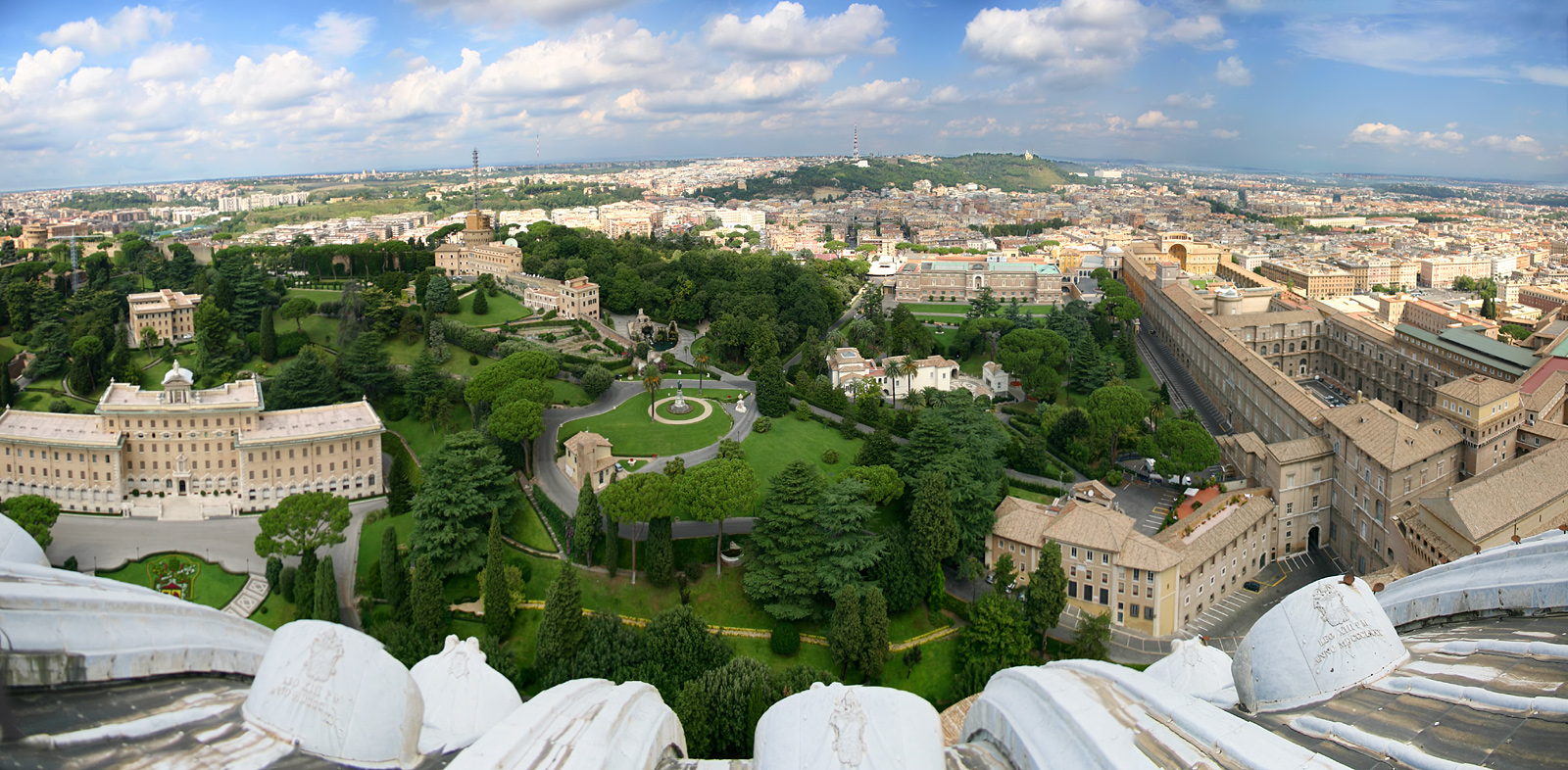 View of the Vatican Gardens and Museum, Vatican City, and Rome.